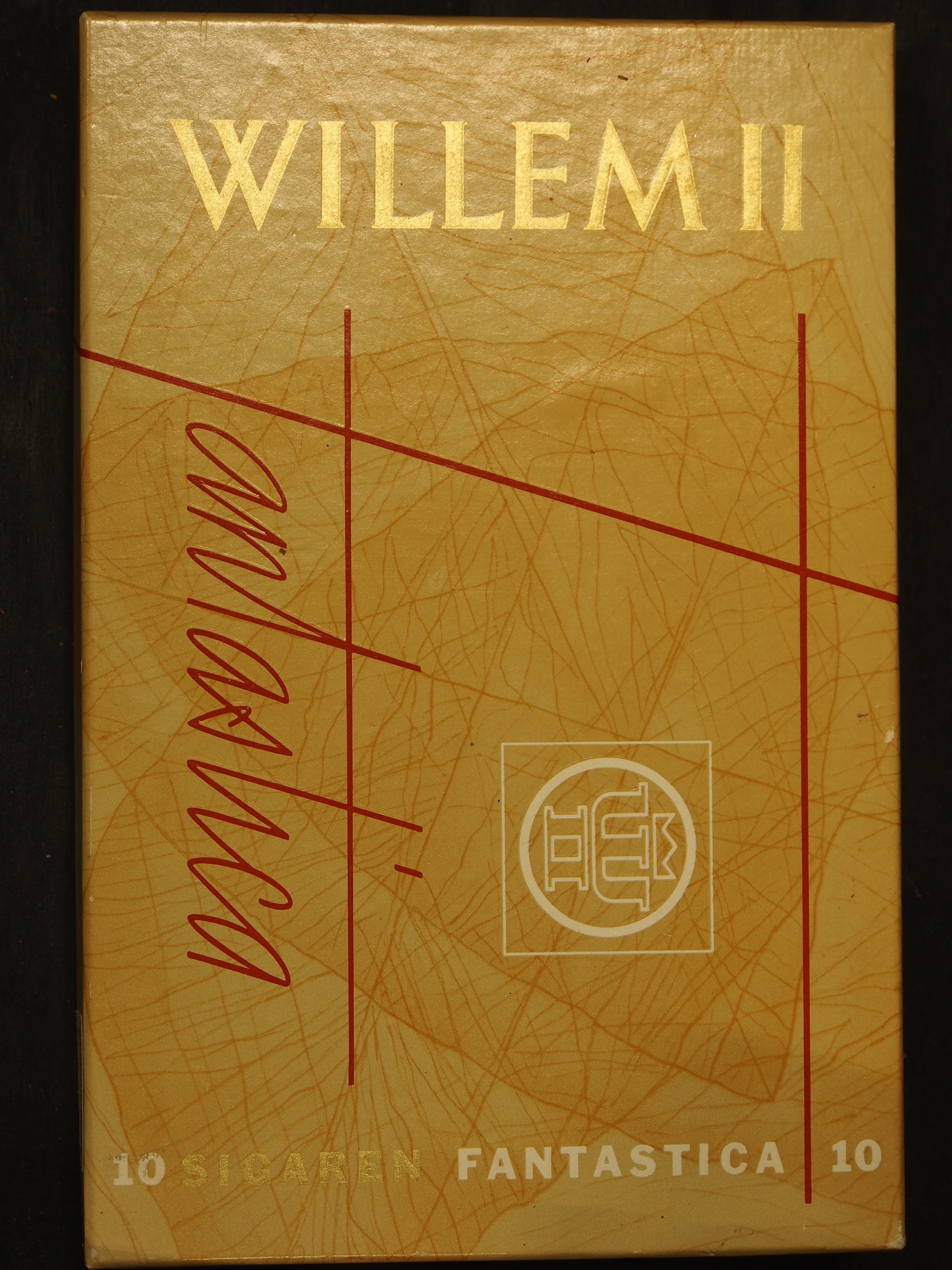 Old product not sold anymore!